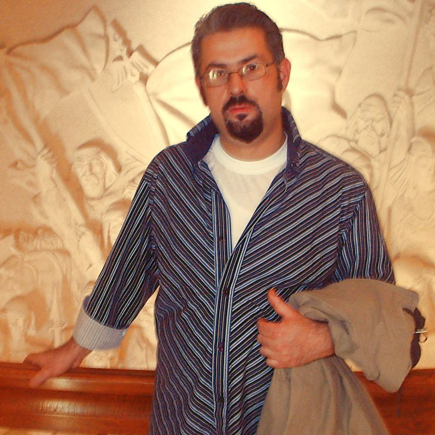 Bujar Kule